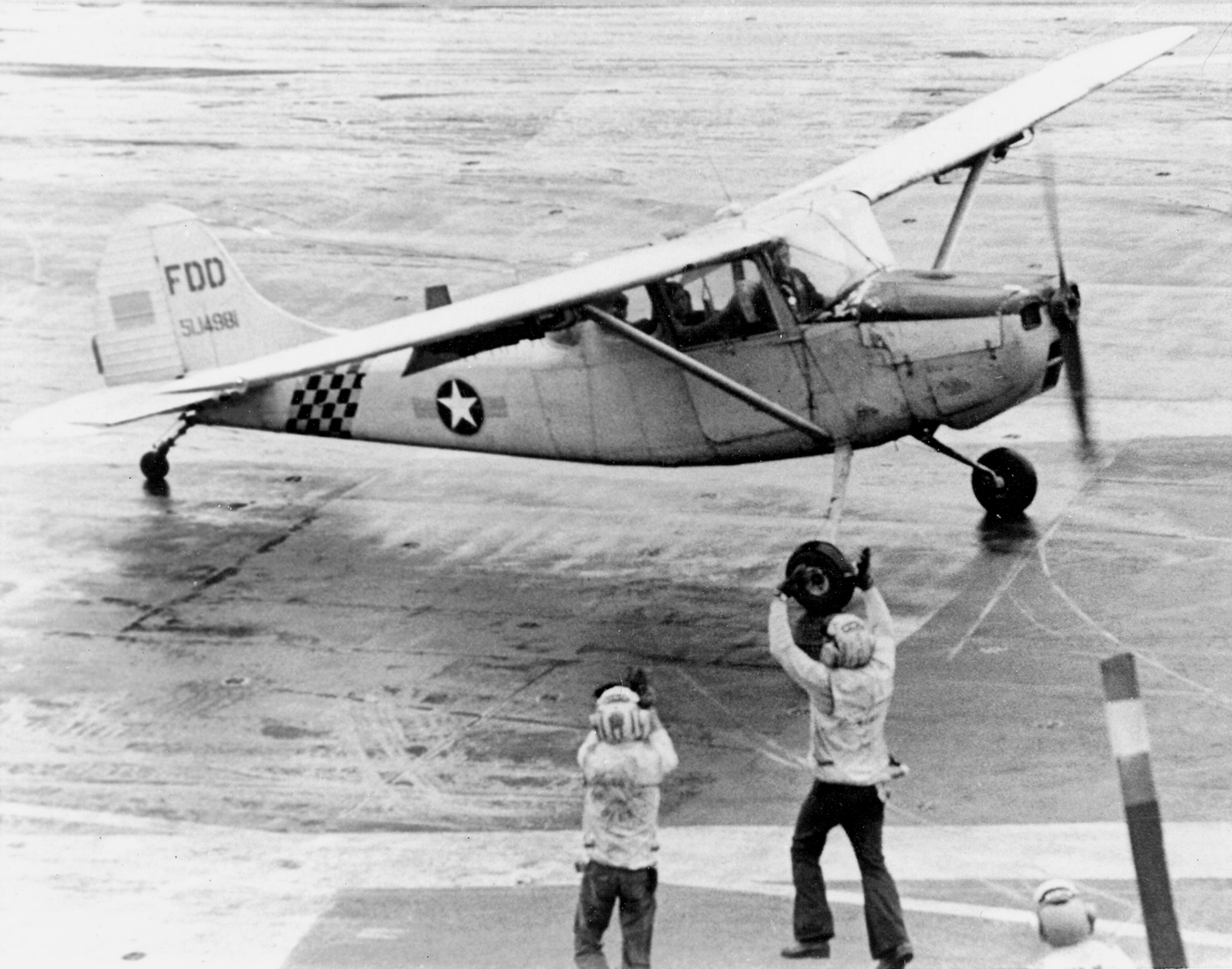 A VNAF Cessna O-1E (s/n SU4981) after that landing on the U.S. Navy aircraft carrier USS Midway (CV-41) on 30 April 1975 during operation "Frequent Wind", the evacuation of South Vietnam. The plane was piloted by South Vietnamese Air Force Major Buang and carried his wife and five children to safety. Three crewmen are moving toward the plane to assist, two of the deck crews are seen clapping their hands in joy. The aircraft is today on display at the National Museum of Naval Aviation in Pensacola, Florida (USA).